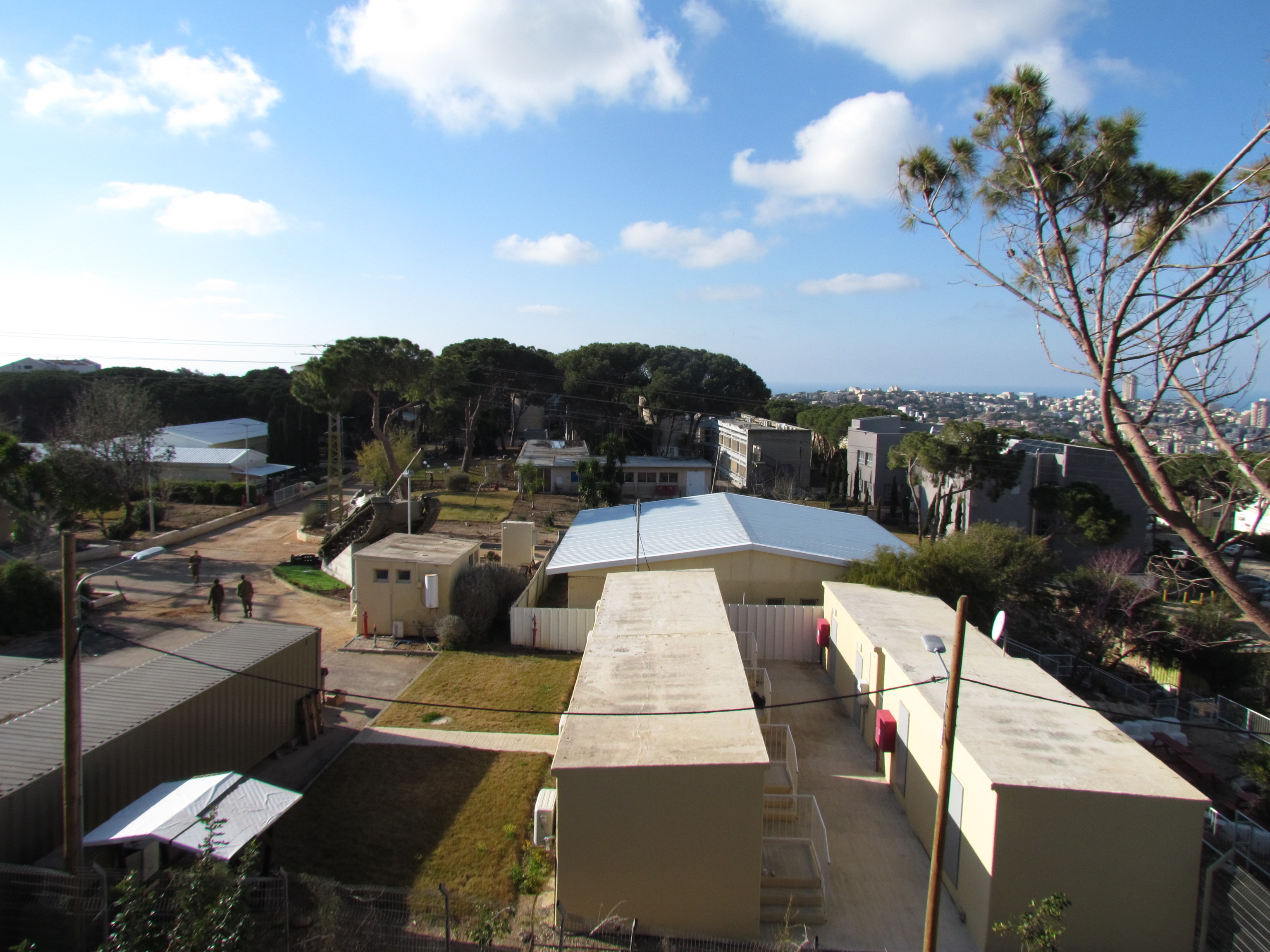 IDF Junior Command Preparatory Boarding School Campus